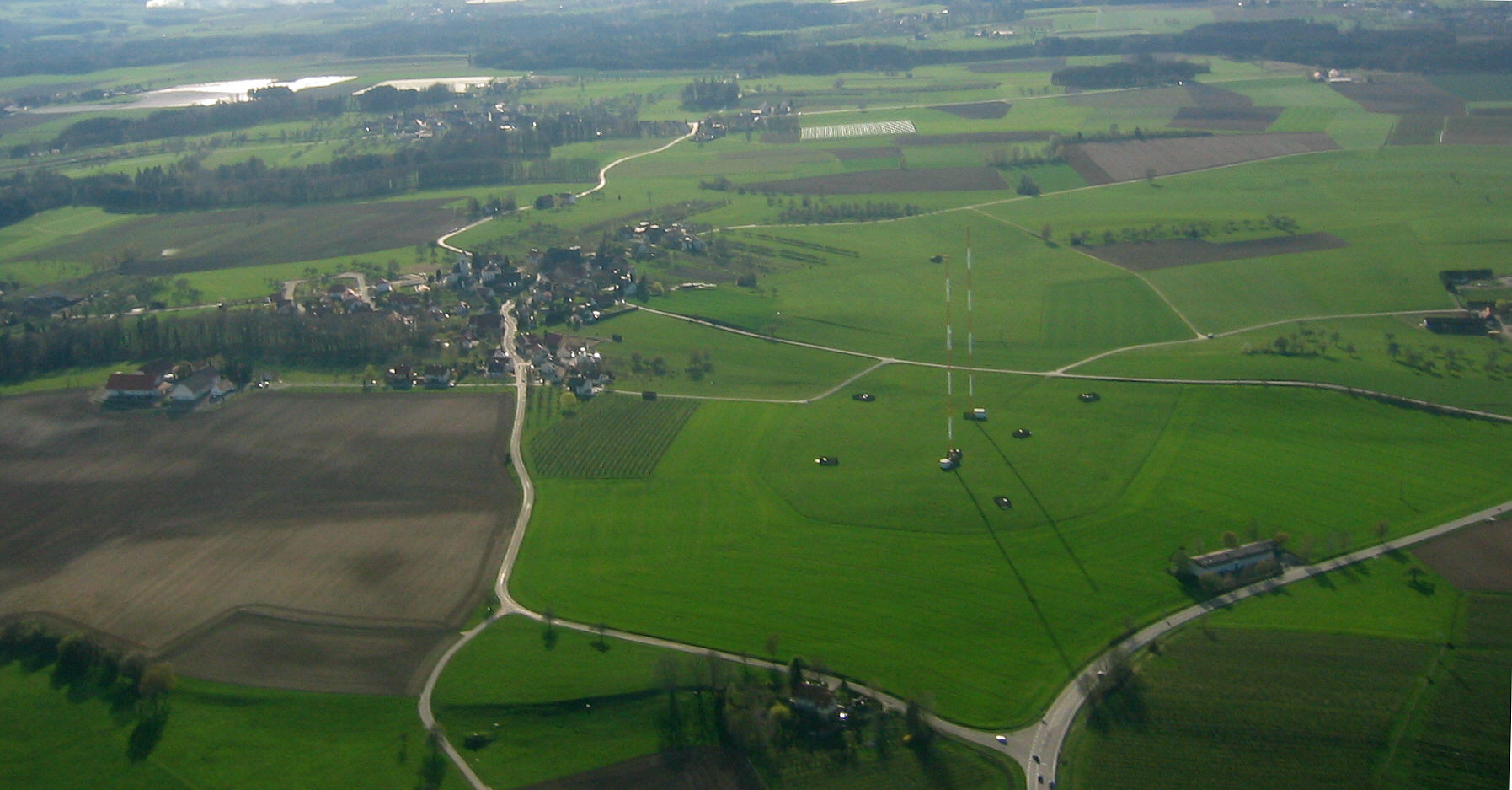 Sender Ravensburg (transmitter in Horgenzell near Ravensburg, Germany)